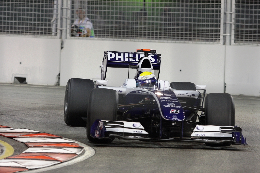 Nico Rosberg driving for WilliamsF1 at the 2009 Singapore Grand Prix.